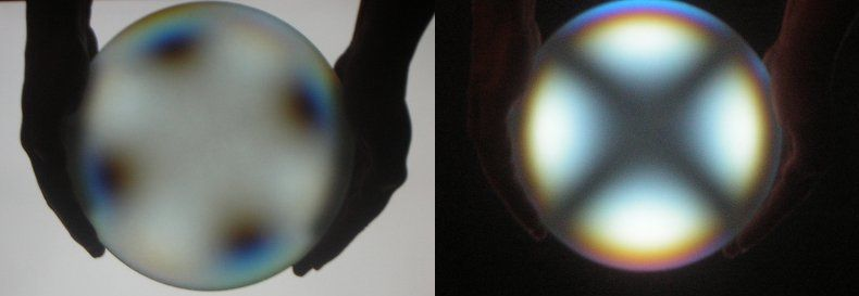 Visualisation of Strain in a glass blank (here a 200mm f/2.5 telescope mirror) using a Polarizer in front of a LCD monitor.